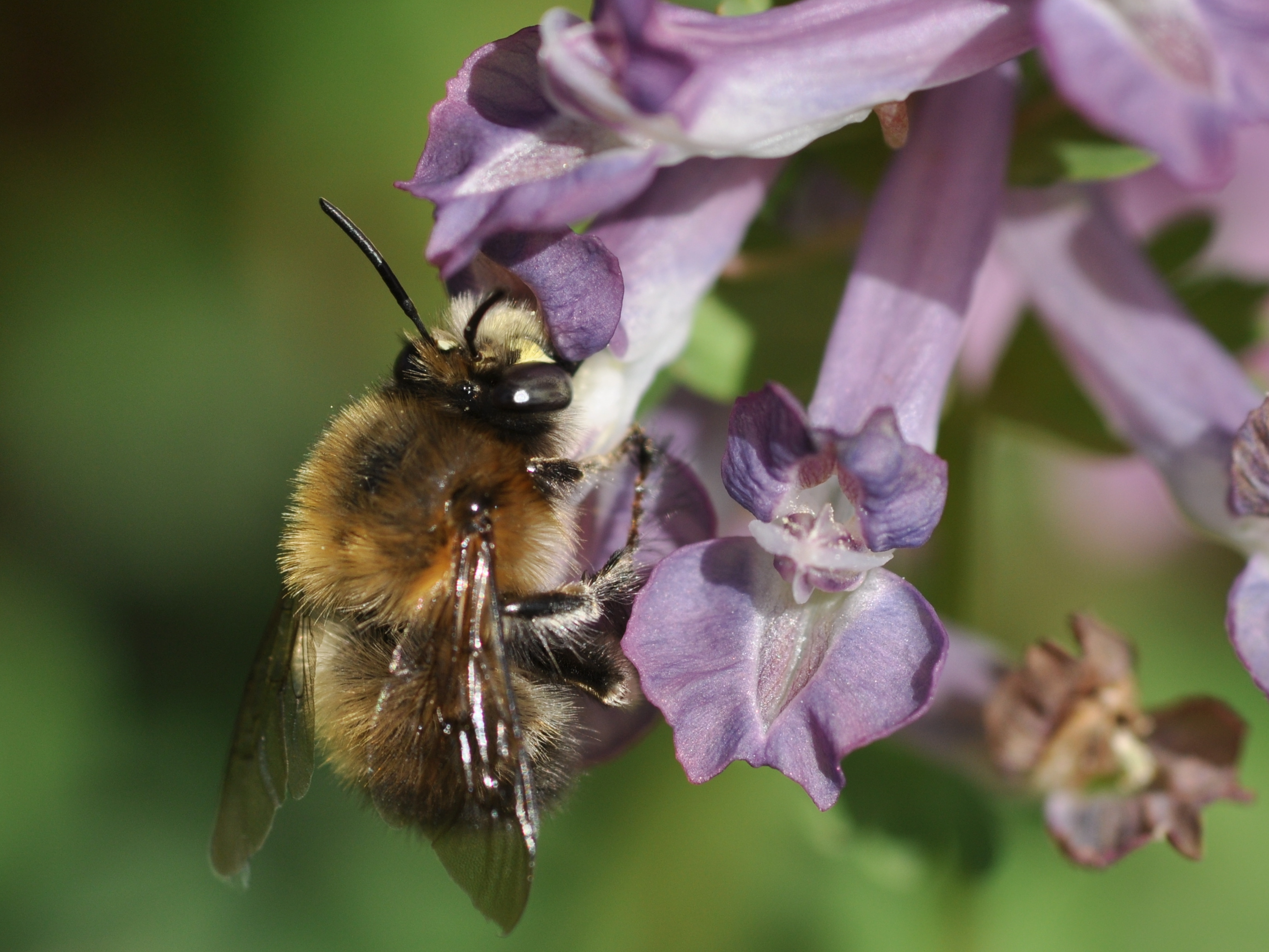 Hairy-Footed Flower Bee male (Anthophora plumipes) on Corydalis solida in Altona, Hamburg.